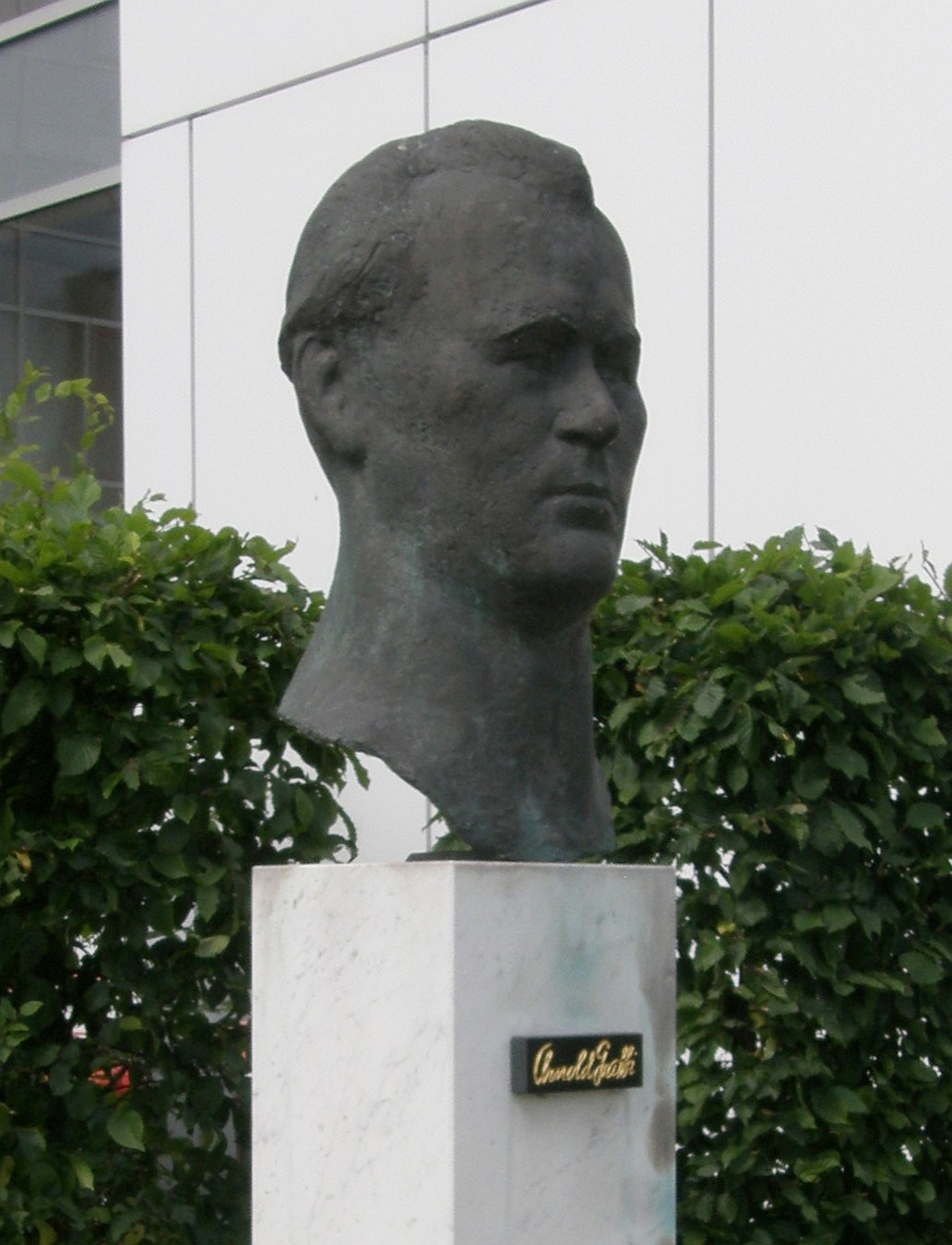 Bust of cancer researcher Arnold Graffi. Created by Gerhard Rommel. Location on the biomedical campus Berlin-Buch in front of the Arnold-Graffi-Haus.